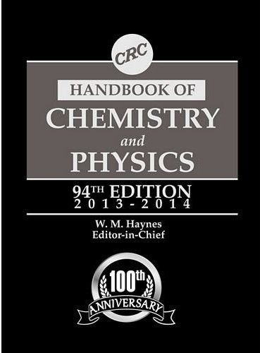 CRC Handbook of Chemistry and Physics, 94th Edition (Title)